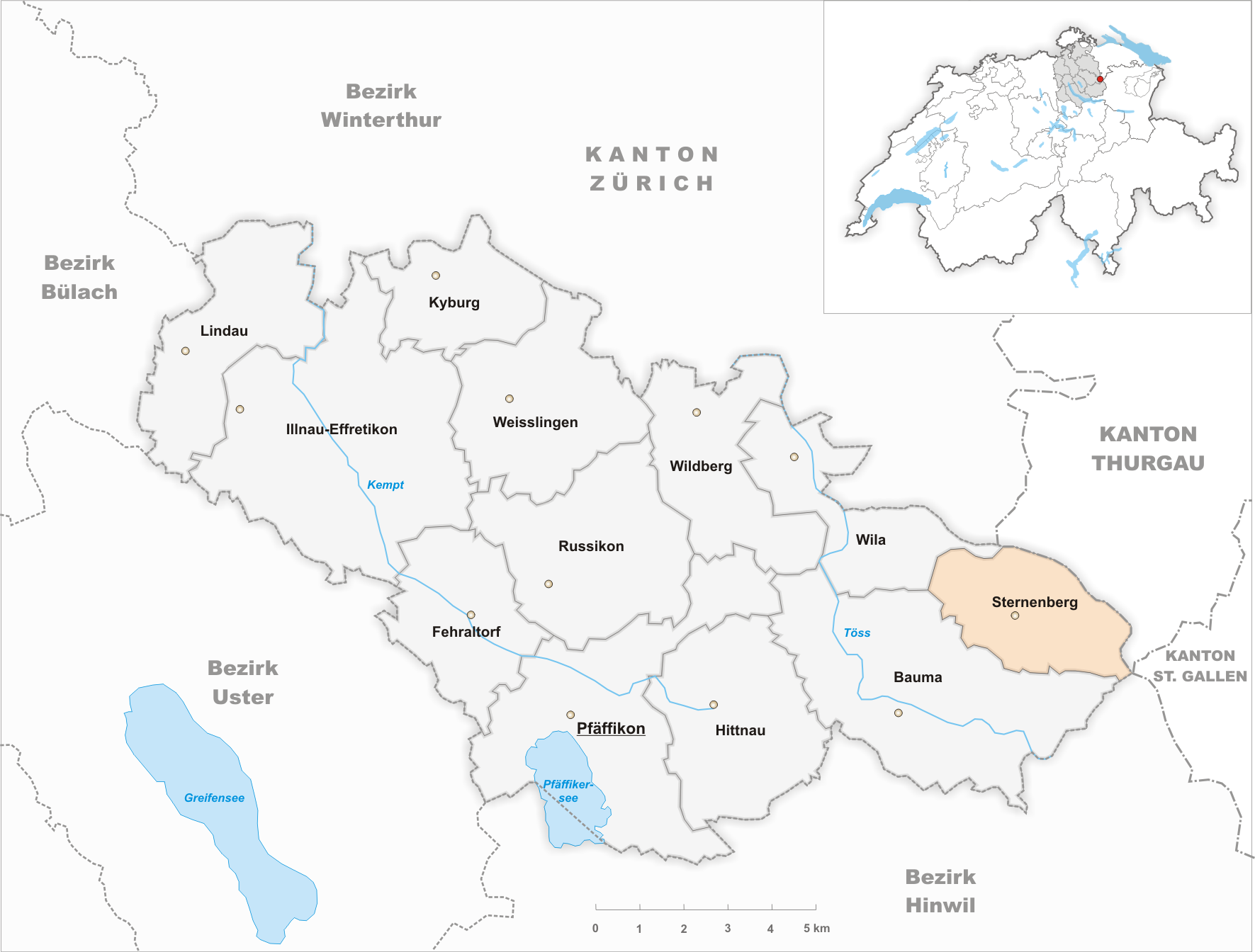 Municipality Sternenberg